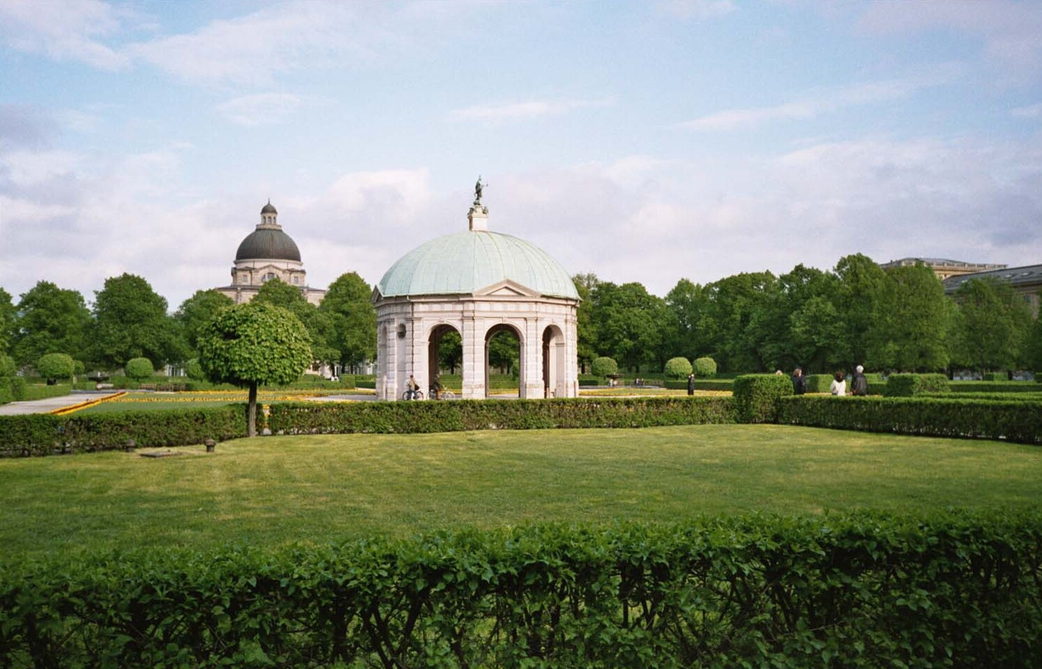 View on Hofgarten, Munich, Bavaria